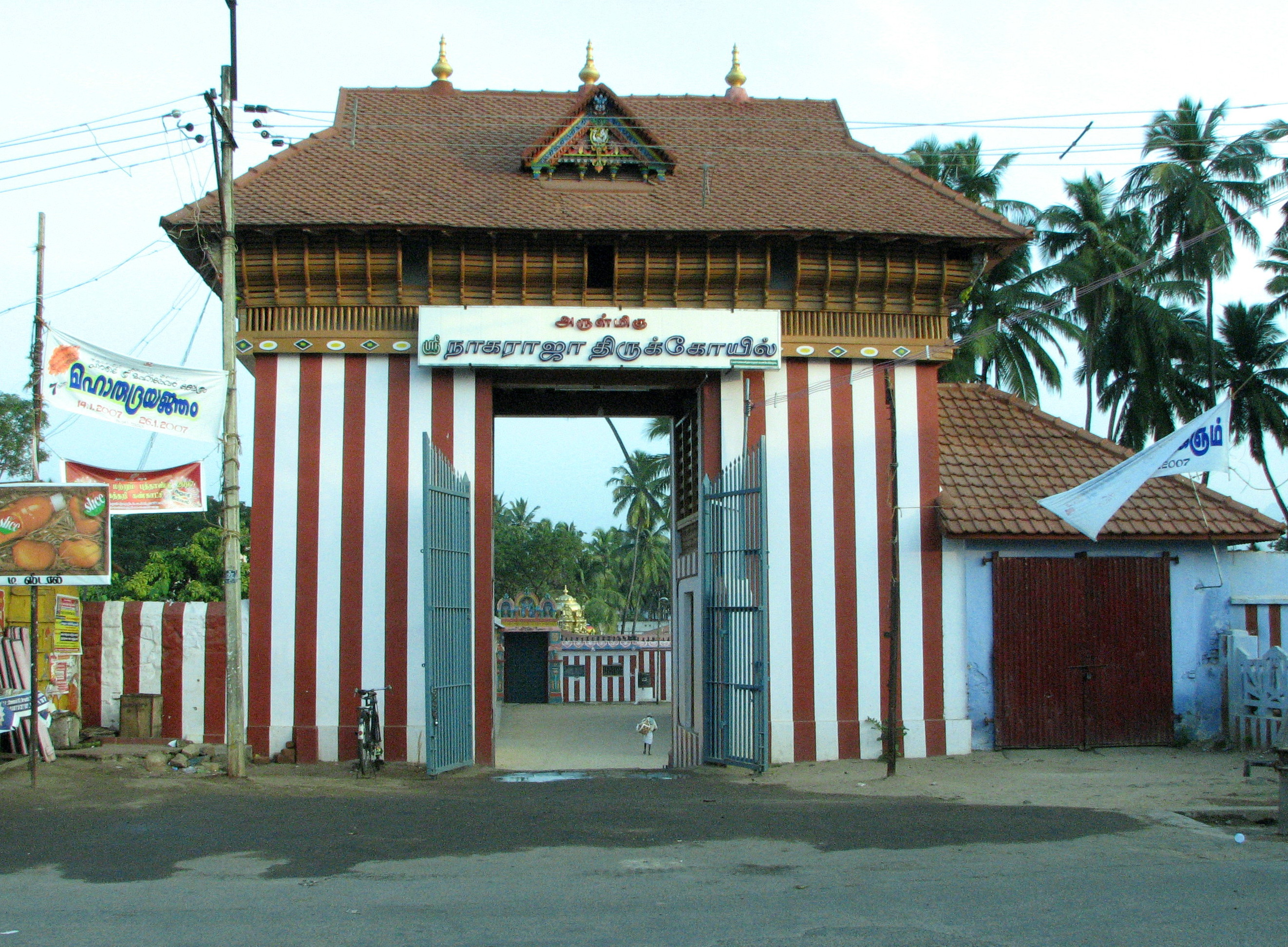 Nagaraja Temple at Nagercoil, self-made photograph ; Author's Name : Infocaster